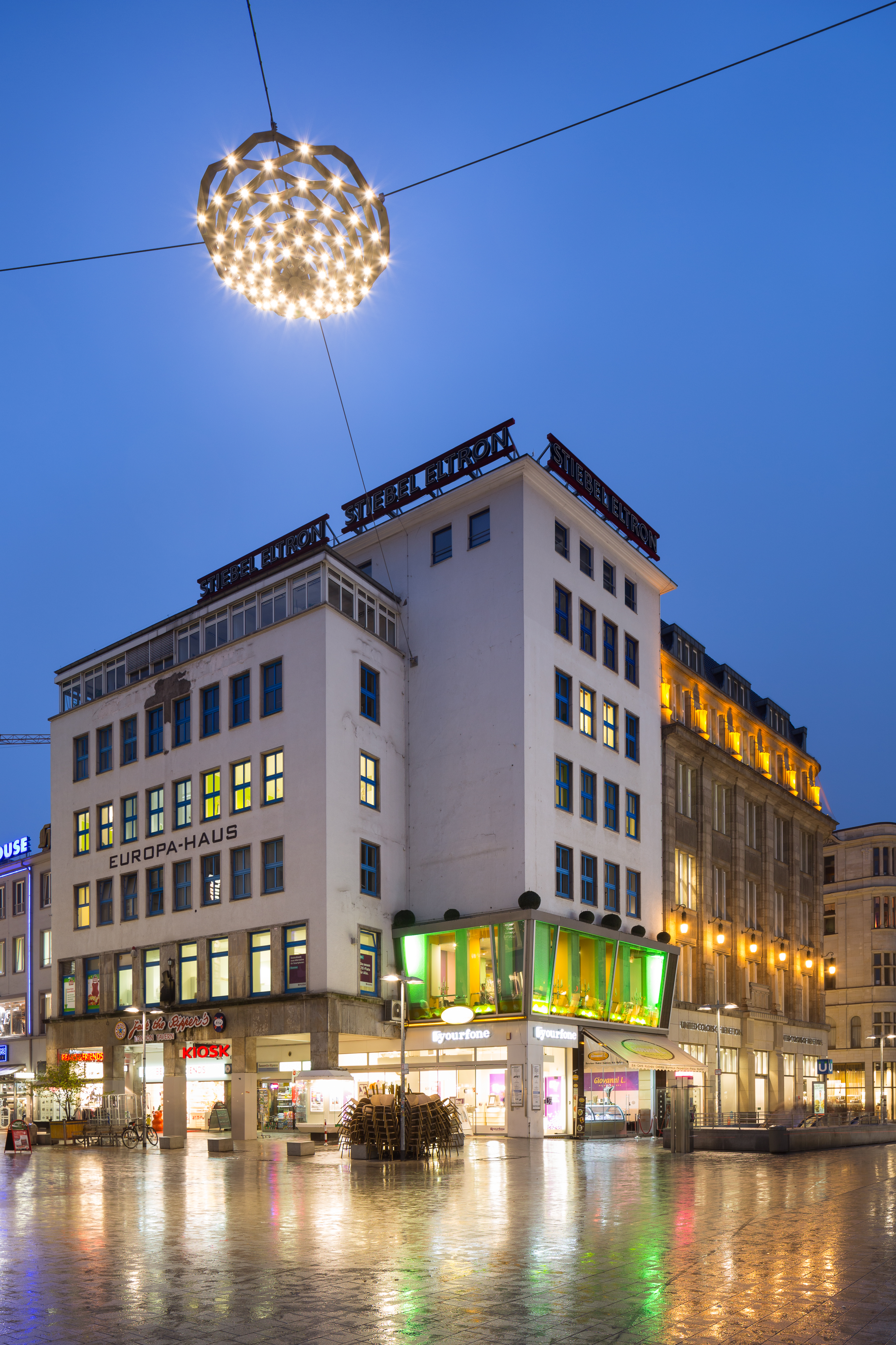 lamp installation Lichtwolke (=light cloud) by Ulrike Brandi located above Kroepcke square in Mitte quarter of Hannover, Germany.